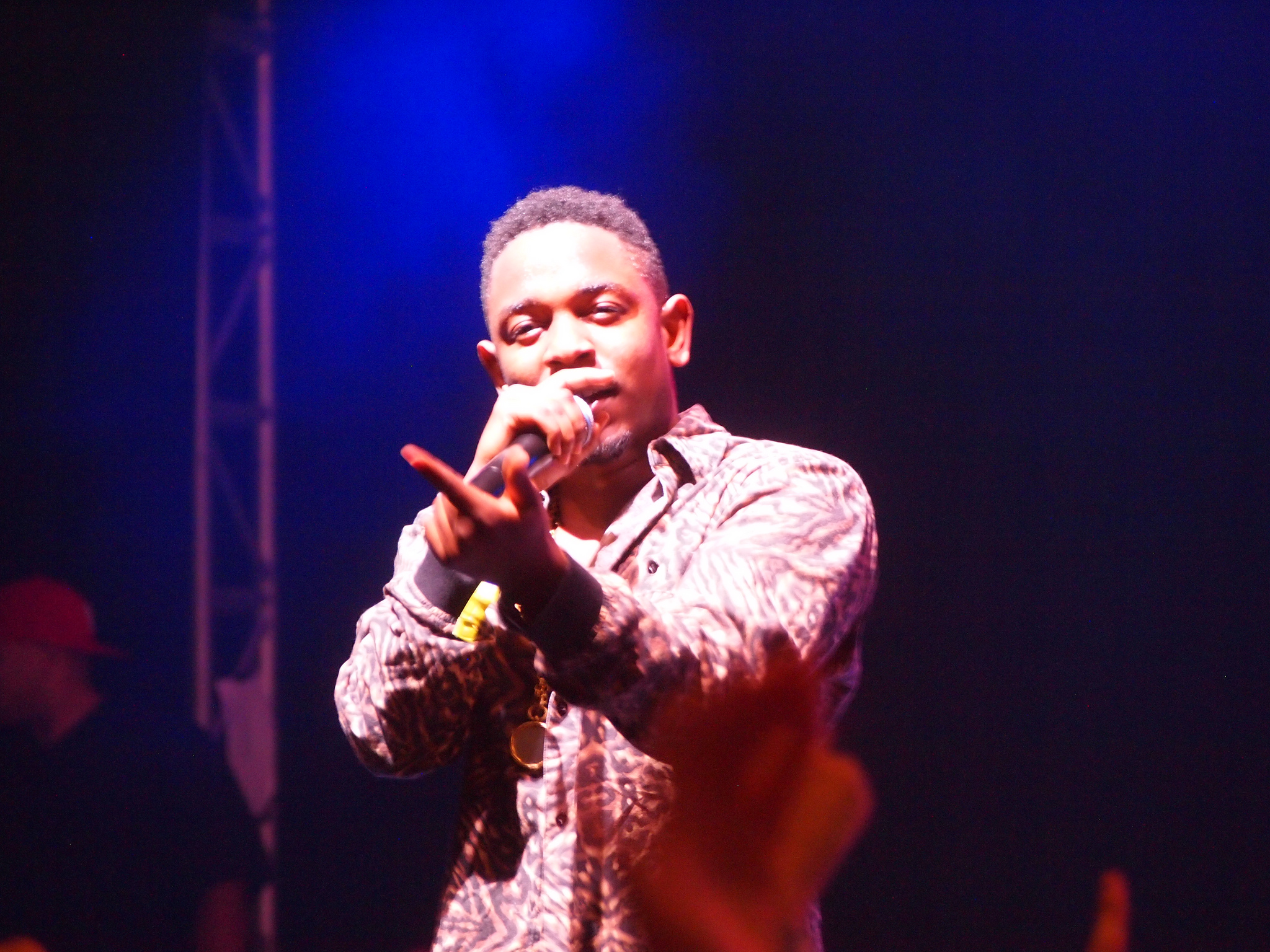 Kendrick Lamar performs Thursday night at Bonnaroo in Manchester, Tennessee.